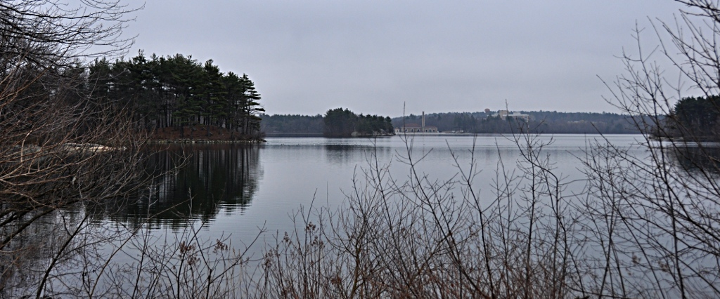 A photograph of Spot Pond in the Middlesex Fells Reservation in Stoneham, Massachusetts.